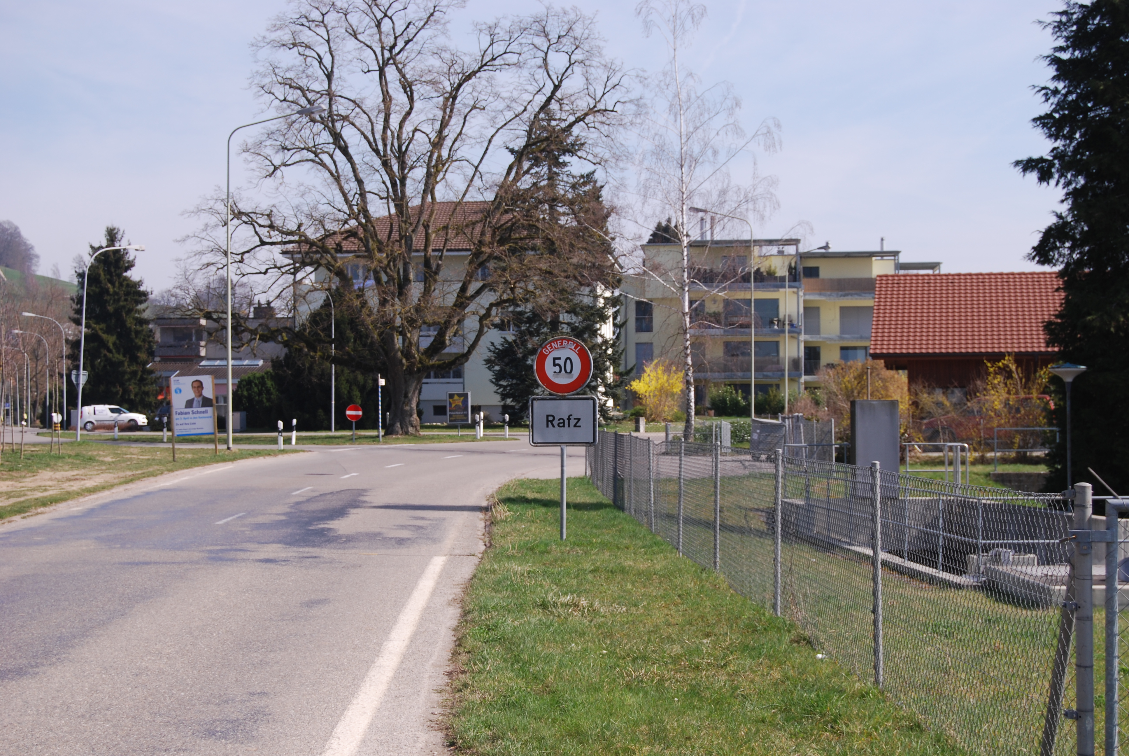 Village entry of Rafz, canton of Zürich, Switzerland